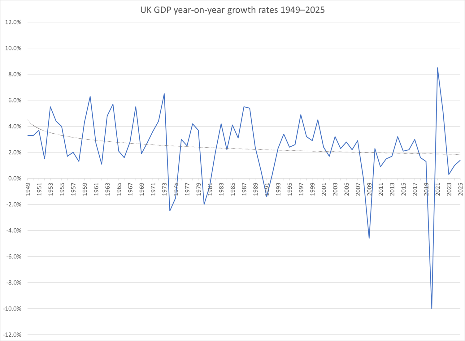 Data from ONS Gross Domestic Product: Year on Year growth: CVM SA % (10 May 2019)